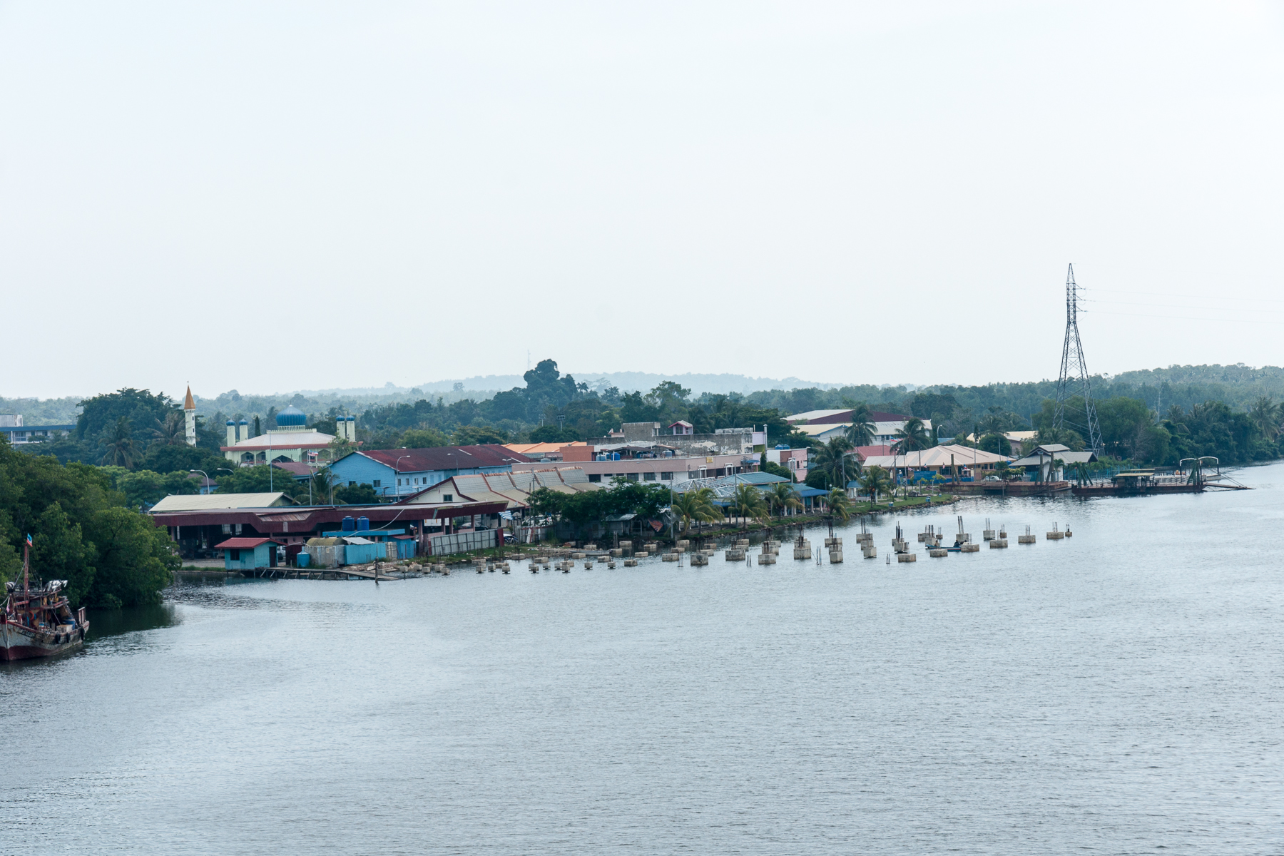 Rivers of Sabah, Malaysia: Kuala Penyu at the estuary of Sungai Sitompok. View from Sitompok Bridge downstream